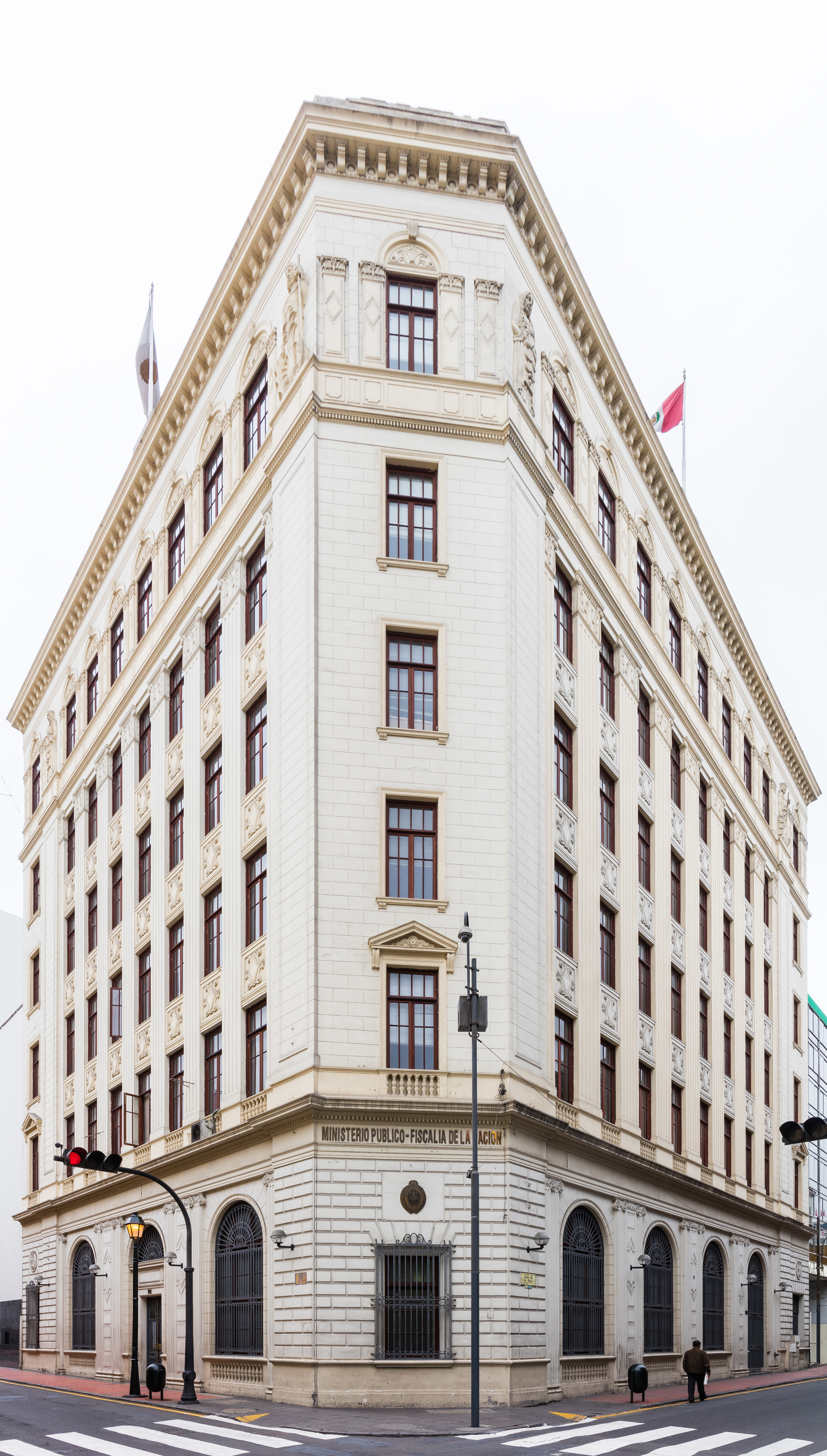 Public Ministry, Lima, Peru